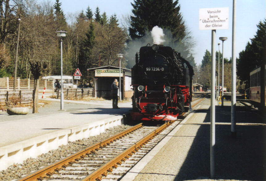 Class 99 7234 of the Harzquerbahn changing on the front side of passenger train.